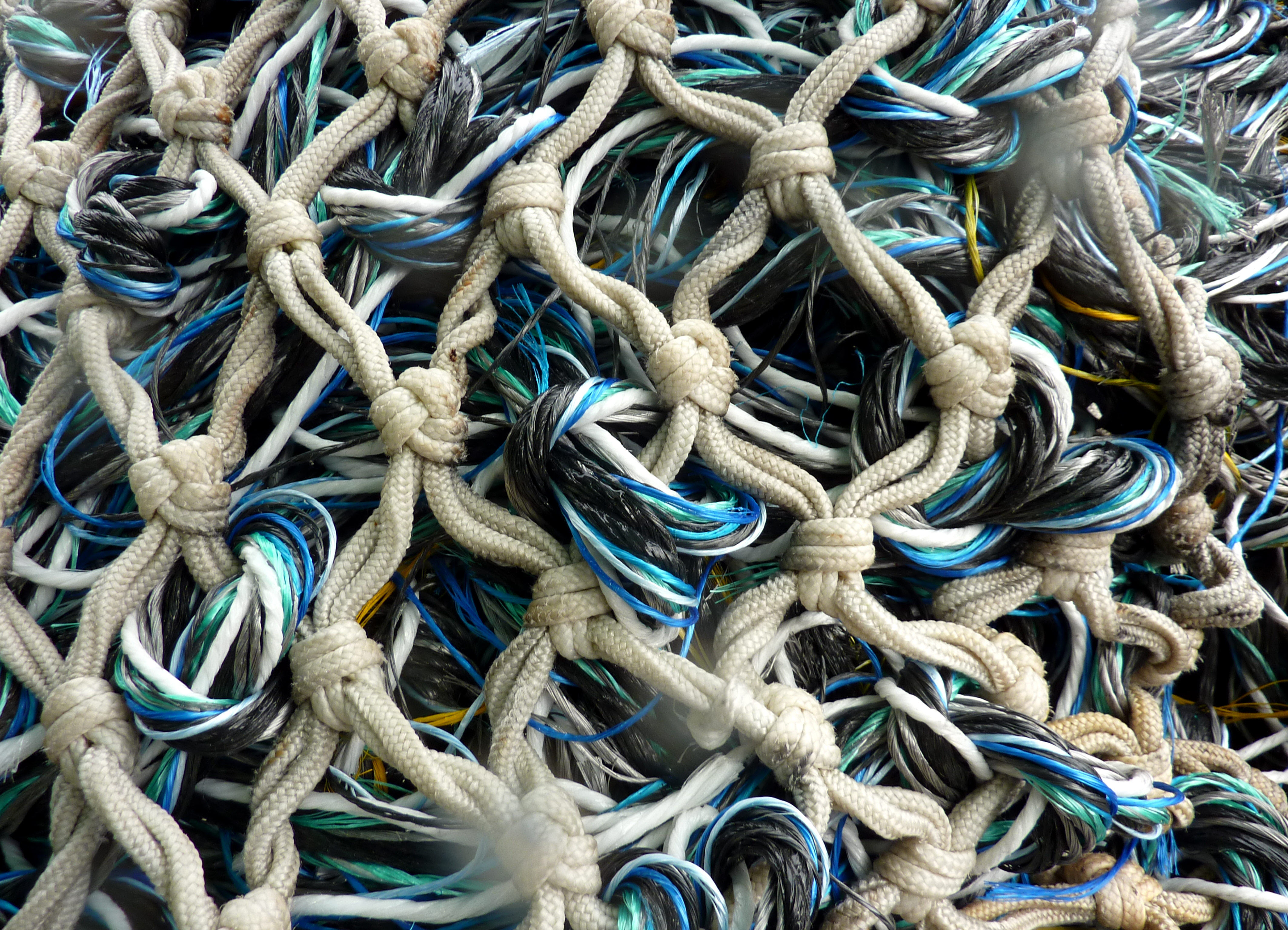 Fishing net at Cuxhaven, Germany